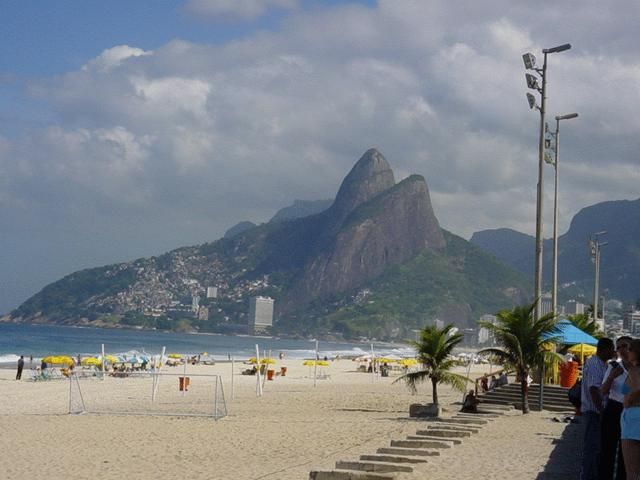 Rio de Janeiro - Ipanema Beach. Looking westward toward the “Two Brothers” hills. Made when I was travelling in Rio de Janeiro and Brazil.